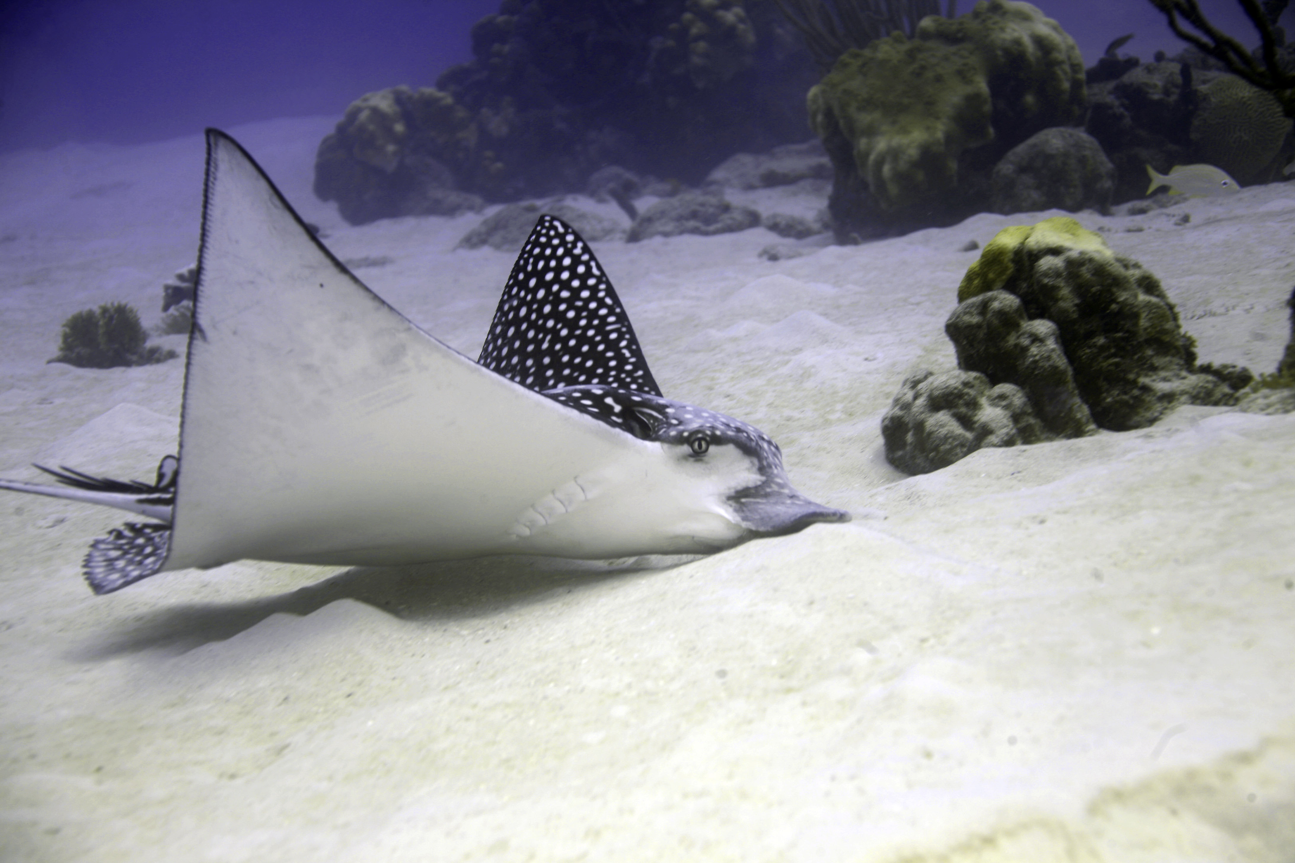 An eagle ray searching the bottom for food. Curaçao, Netherland Antilles